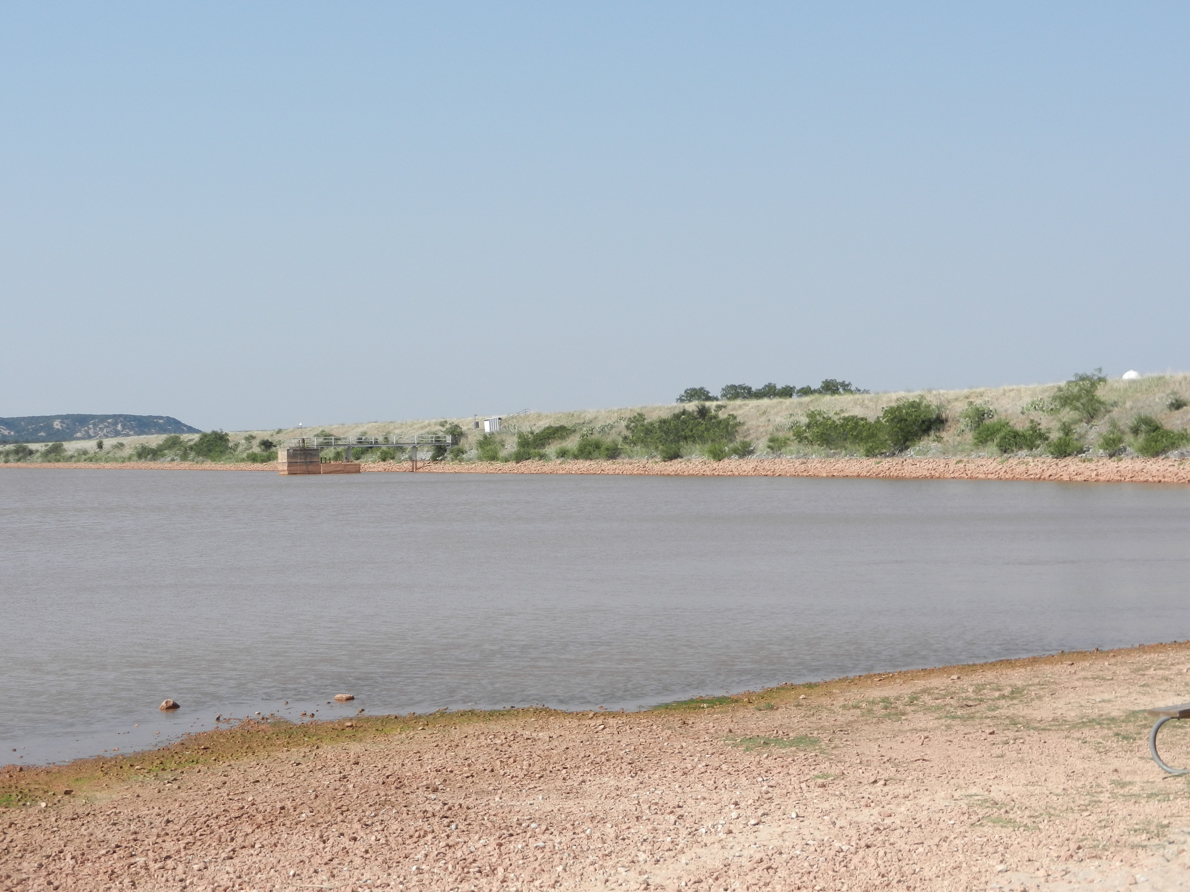 Abilene State Park, Texas